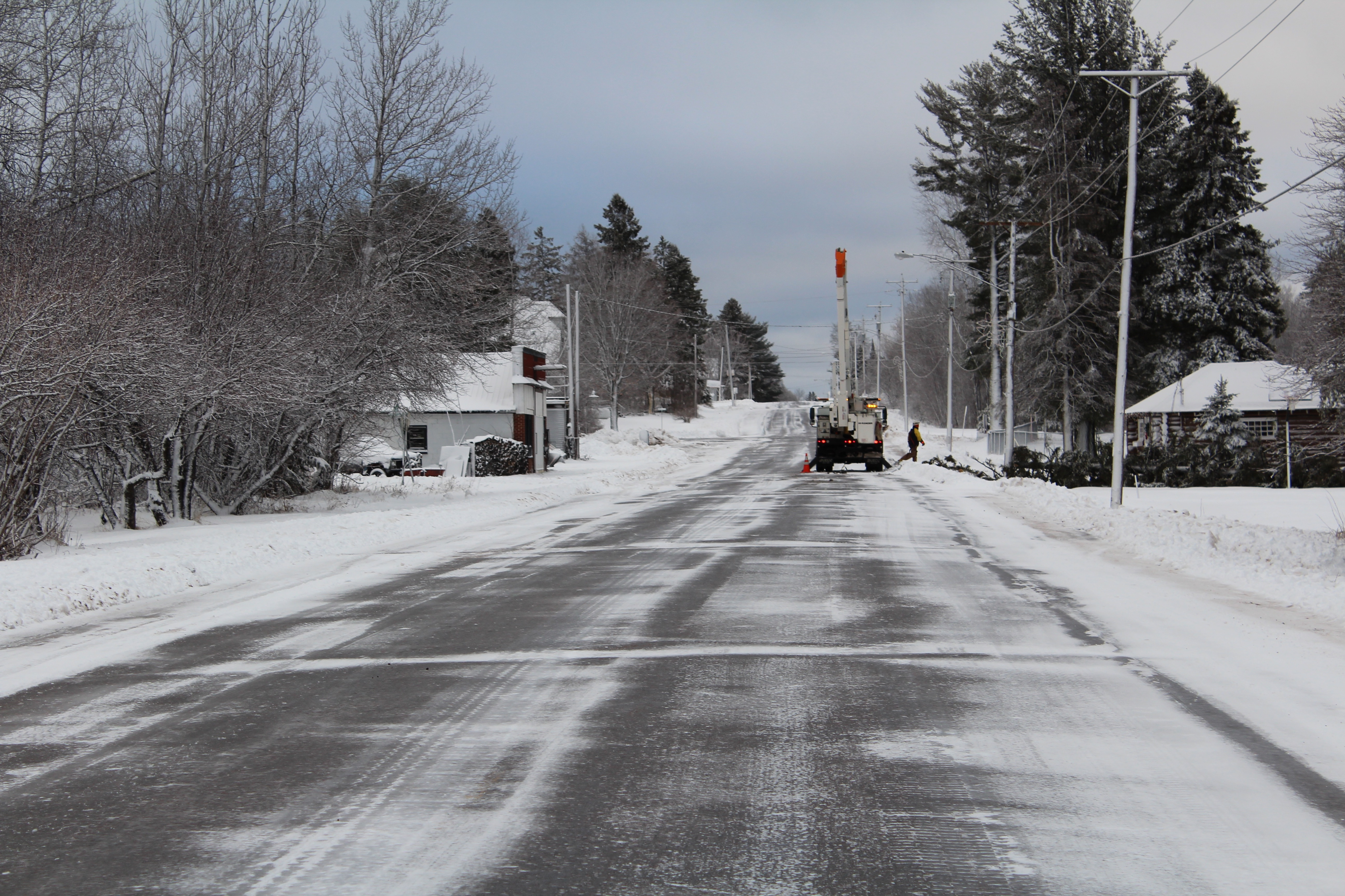 Road